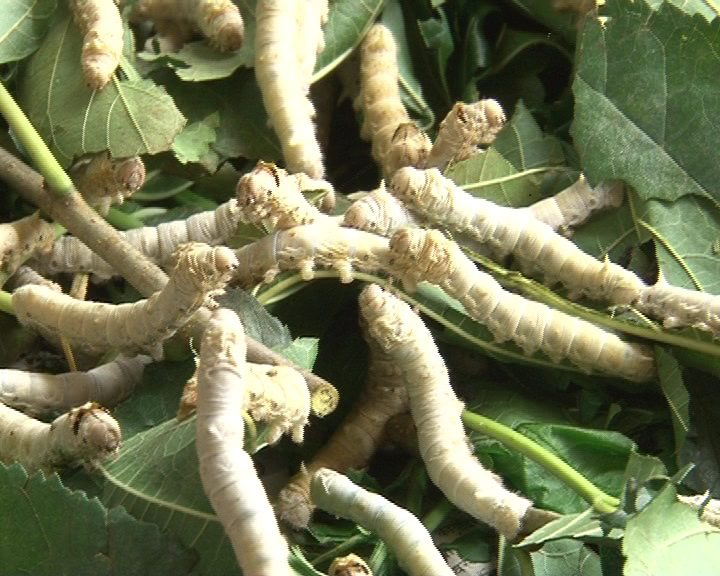 Silk worm